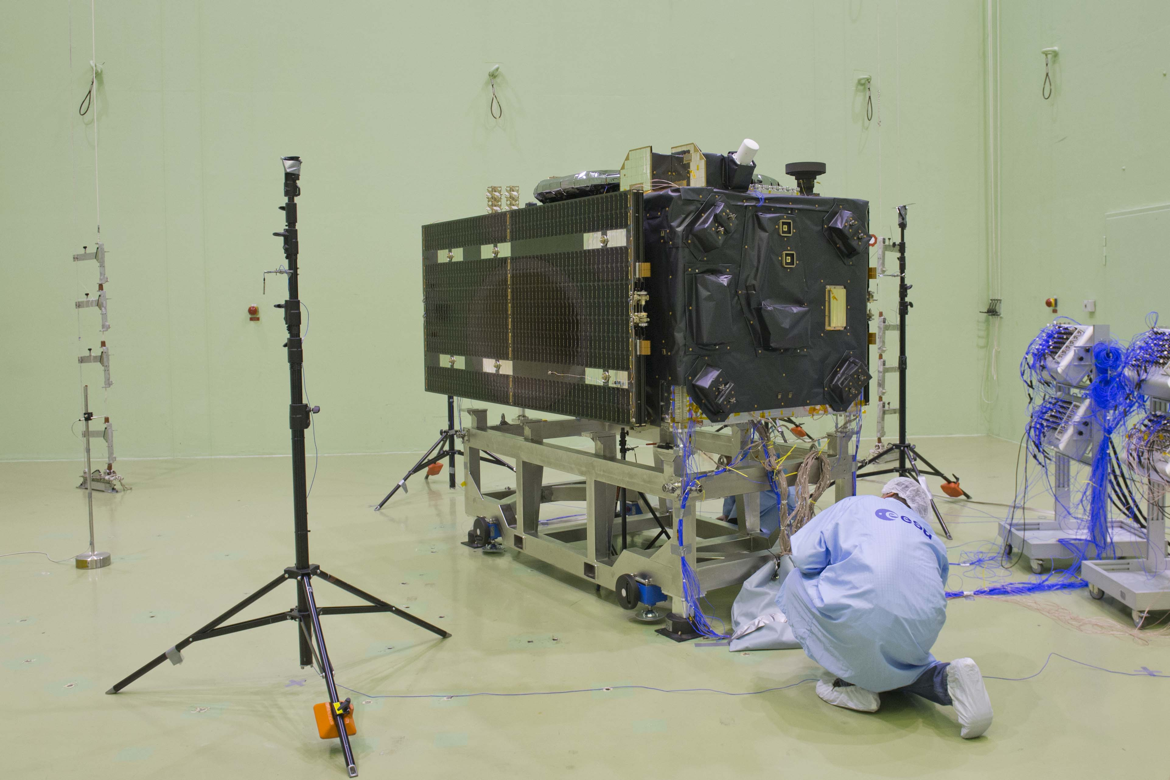 The first Galileo Full Operational Capability satellite, the Proto-Flight Model, in full flight configuration for acoustic testing in ESTEC's Large European Acoustic Facility, LEAF on 11 July 2013. One of the sound horns of the LEAF is seen reflected in the satellite's folded-up solar arrays.